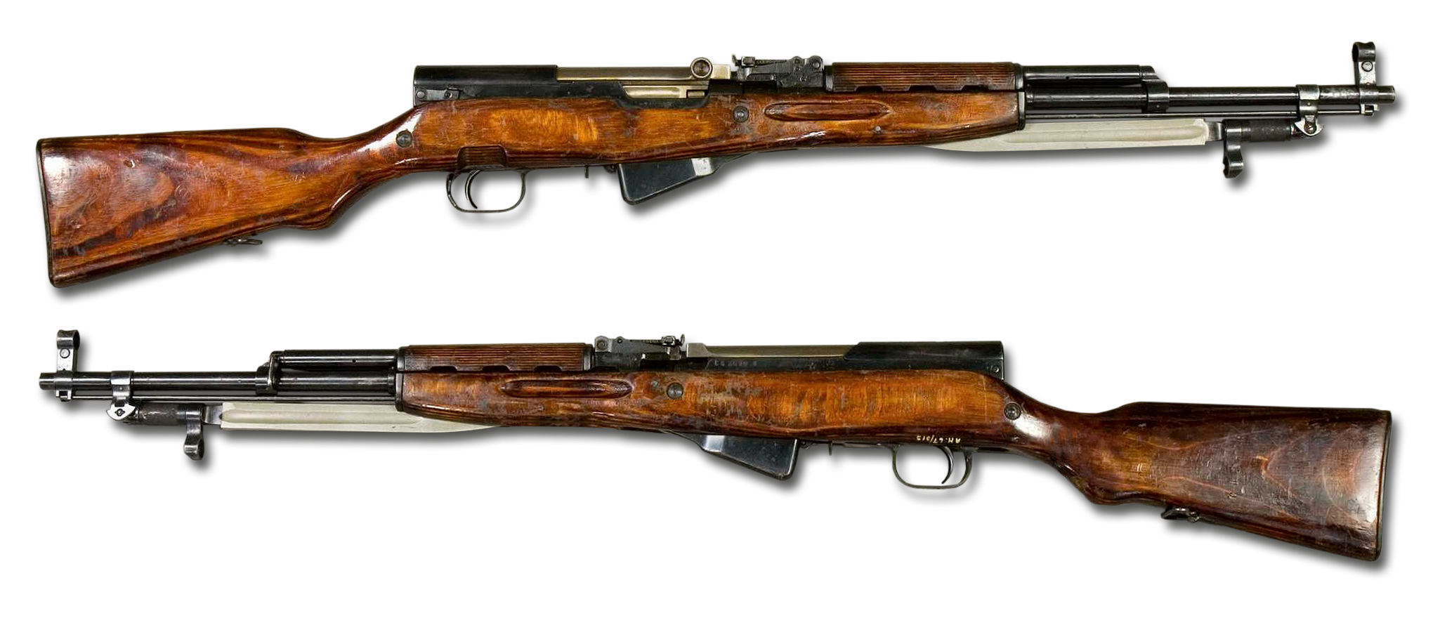 SKS Russian semi-automatic rifle (1945). Caliber 7.62x39mm. From the collections of Armémuseum (Swedish Army Museum), Stockholm, Sweden.